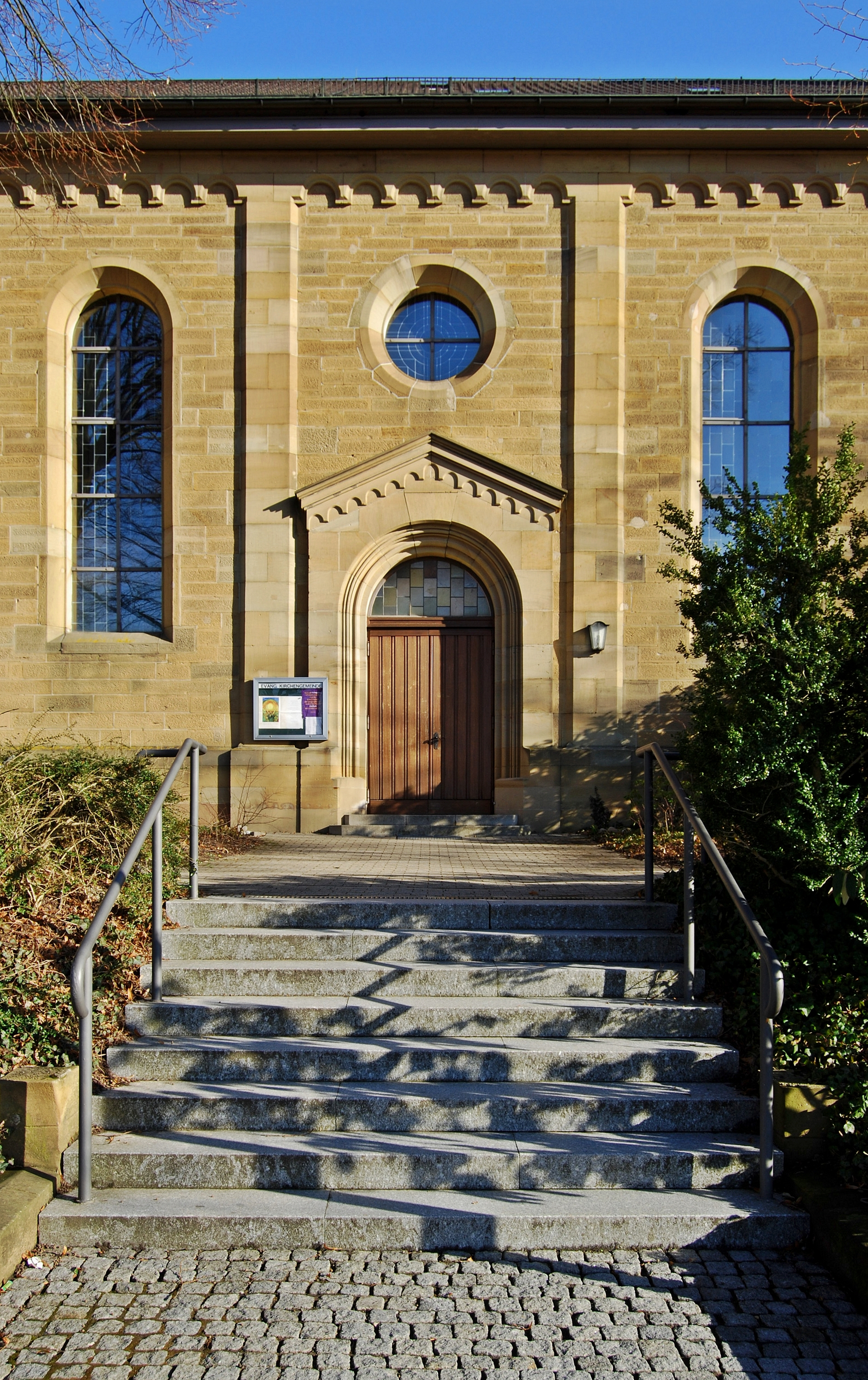 Portal of St. Veit's church, Flein, Baden-Württemberg.